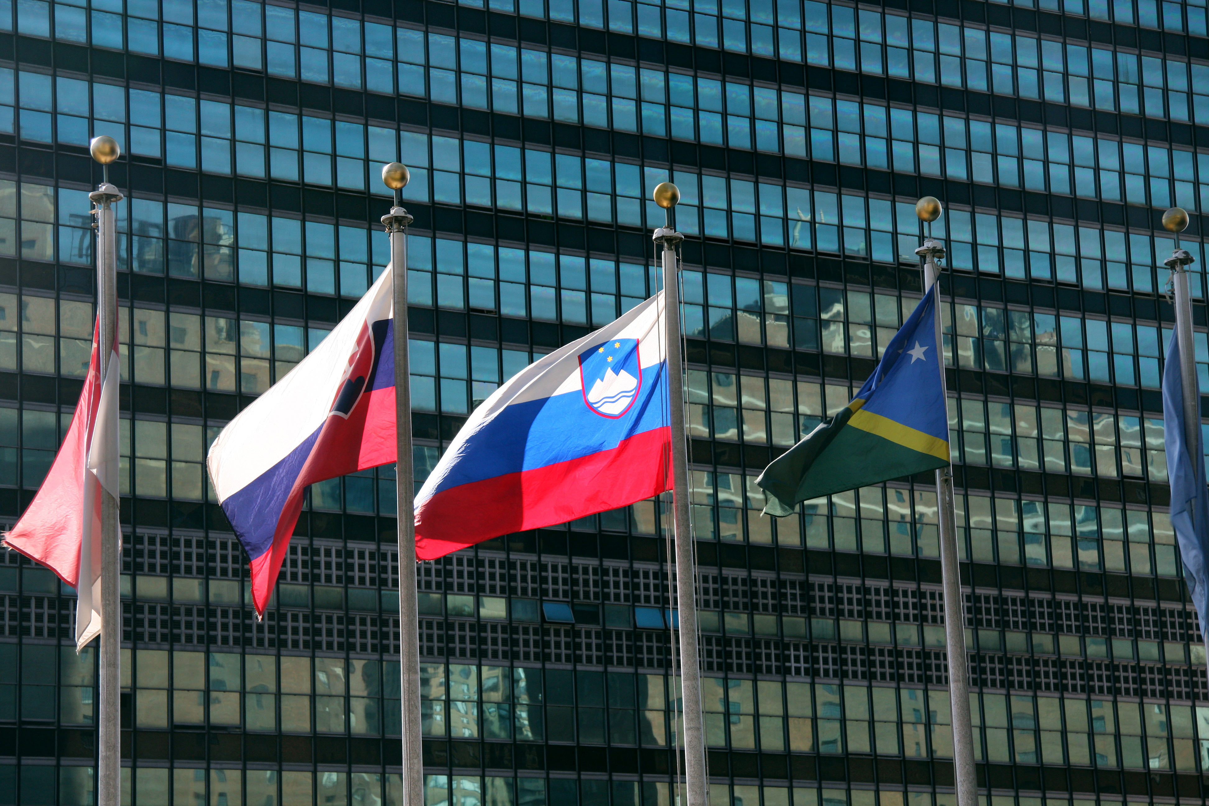 Flag of Slovenia in front of the United Nations headquarters, Manhattan, New York